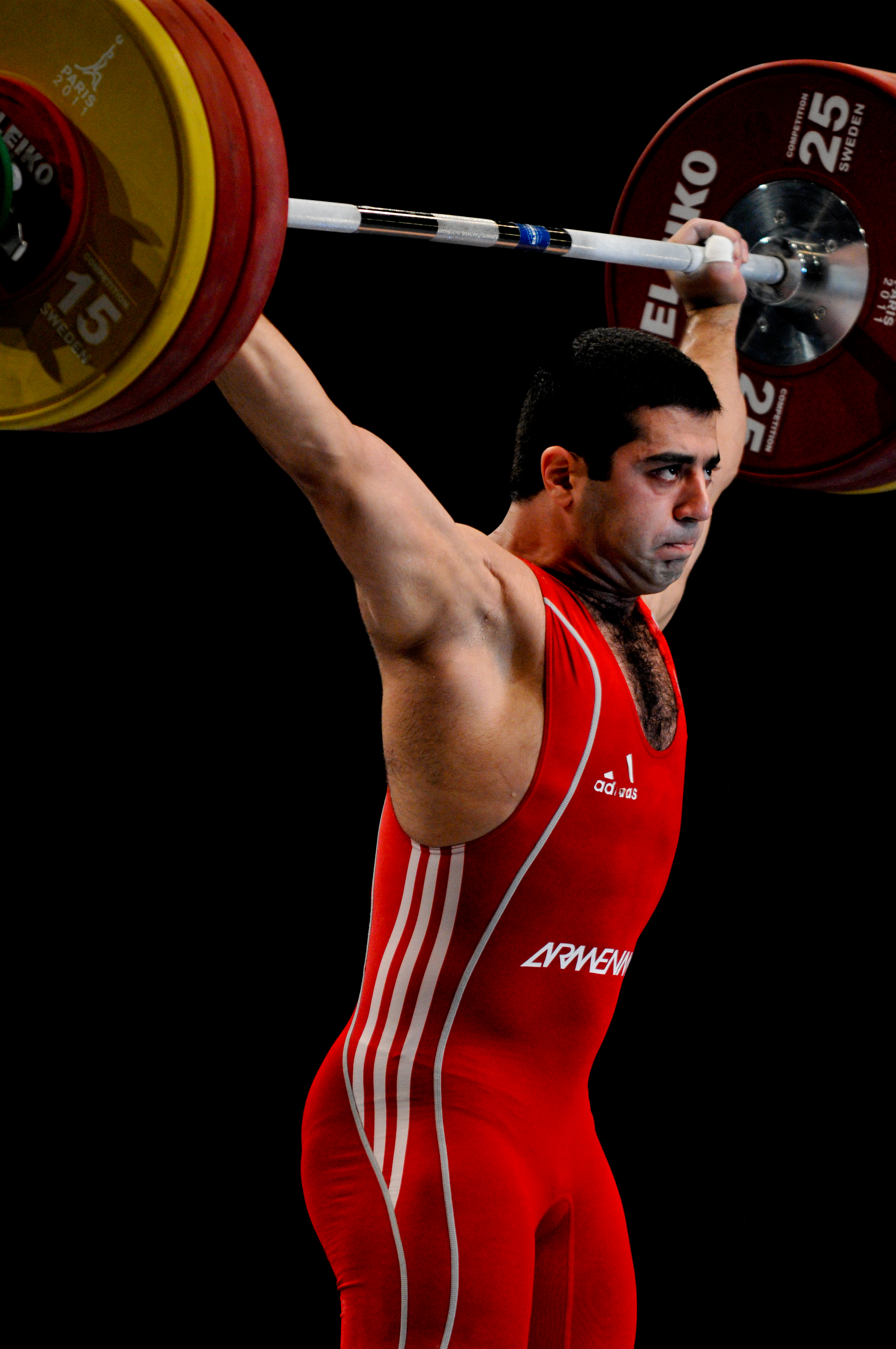 Armenian weightlifter Tigran Gevorg Martirosyan in Paris, 2011